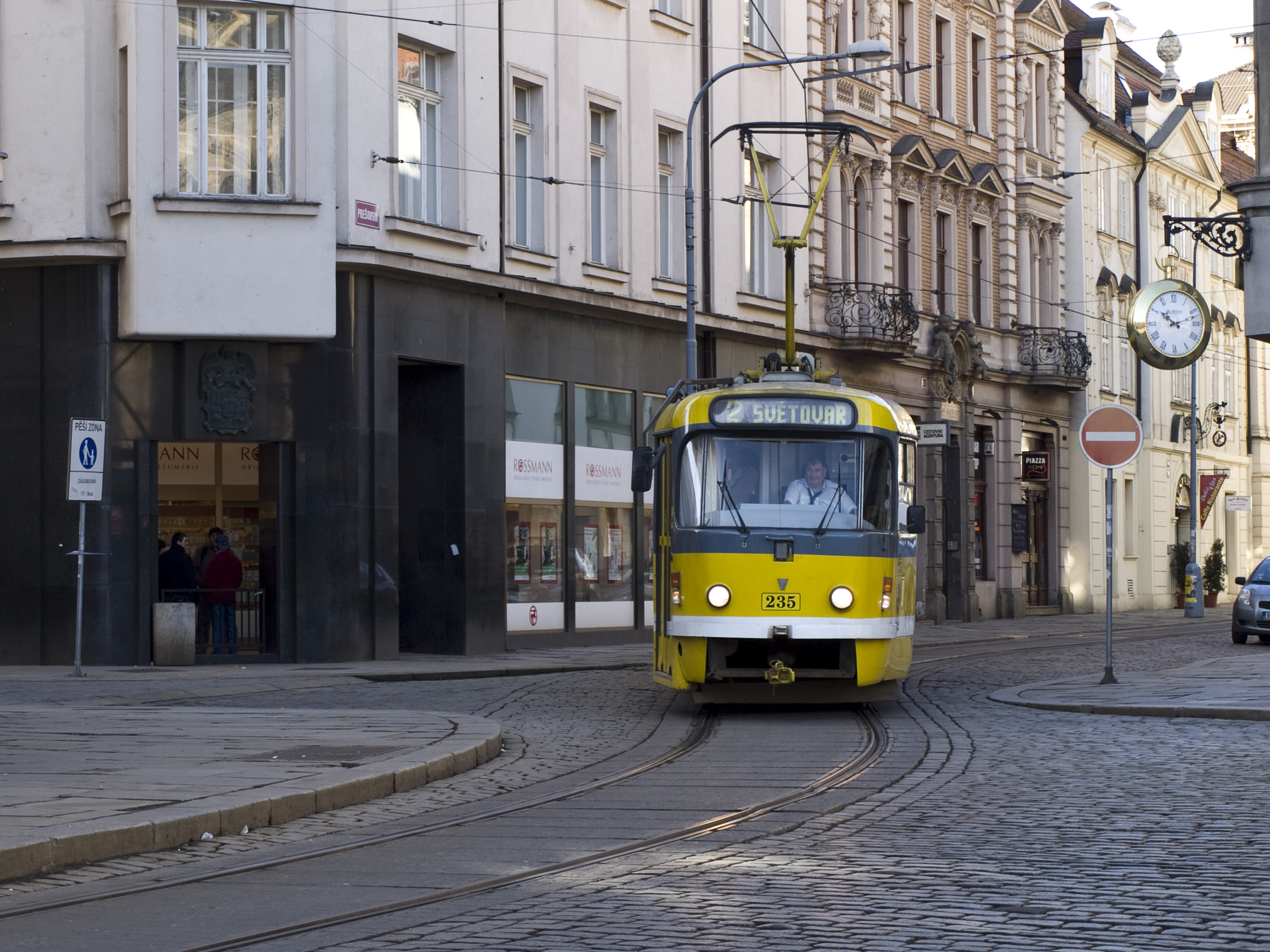 Tatra T3, south, Náměstí Republiky, Plzeň